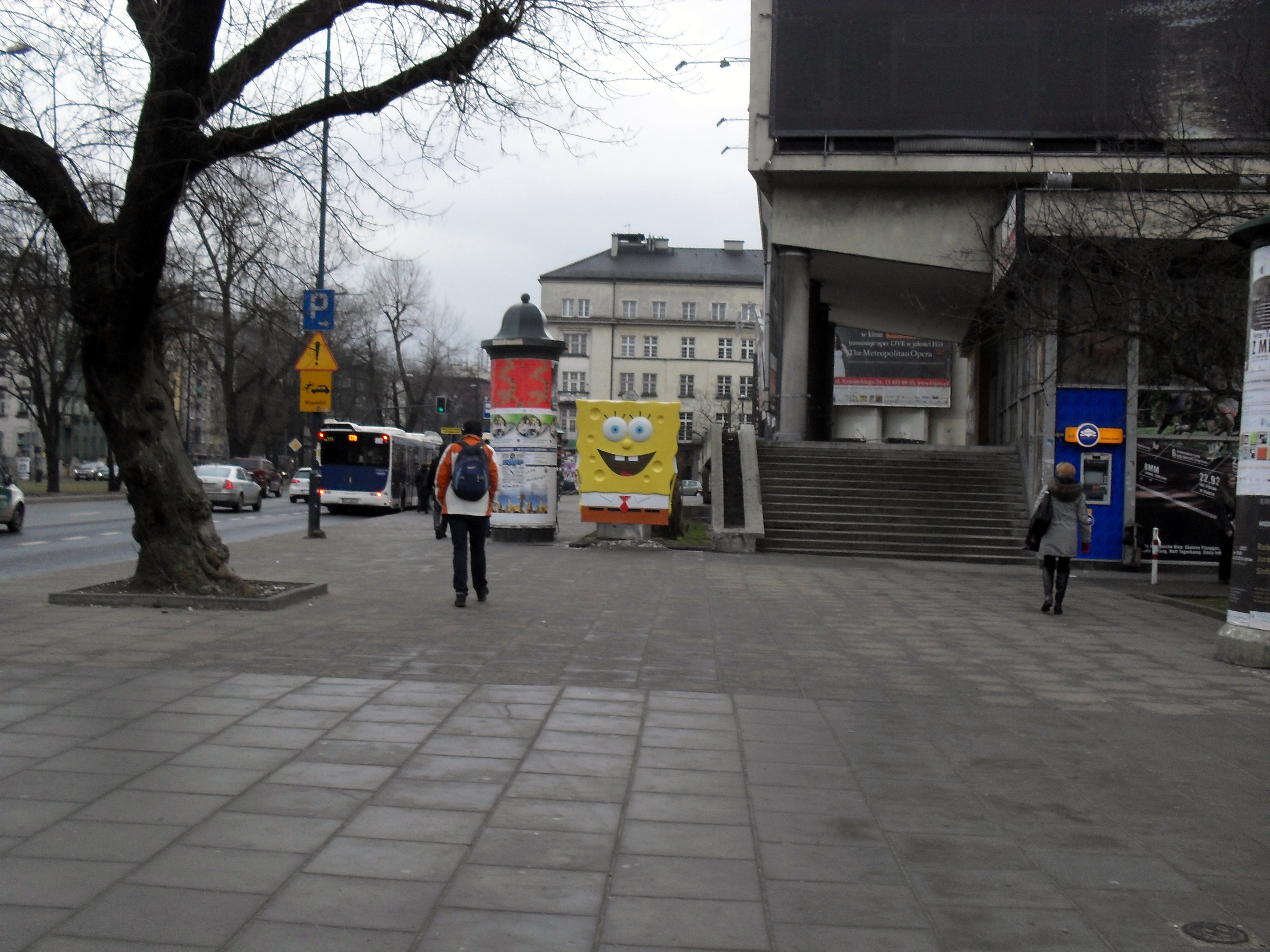 Spongebob Squarepants